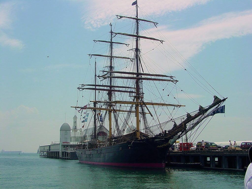 The James Craig at the pier in [Geelong, Victoria]. Photo taken and supplied by Brian Voon Yee Yap.